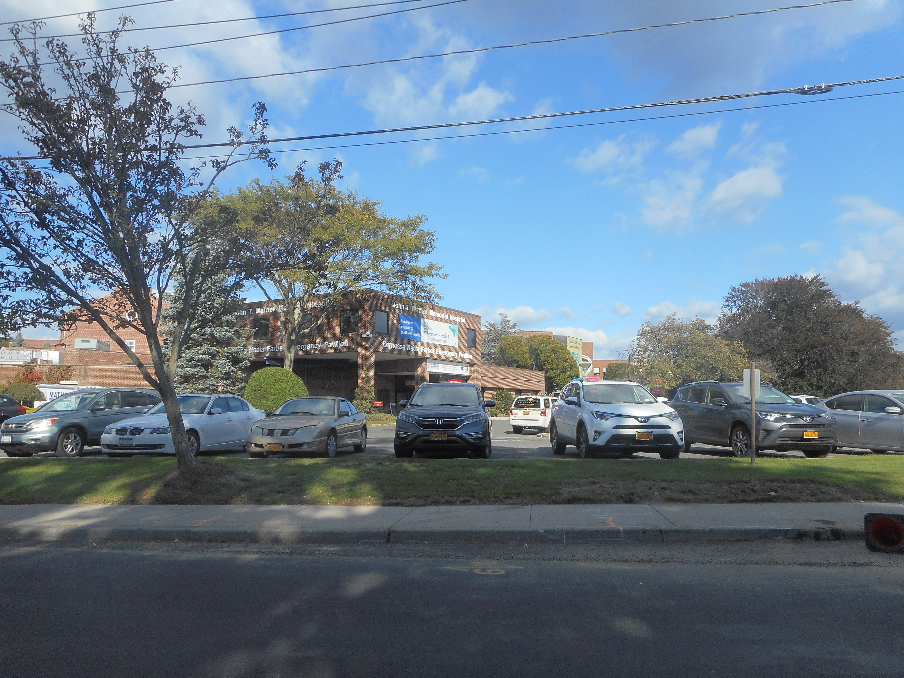 One of the only clear shots I was able to get of the John T. Mather Memorial Hospital at the corner of North Country Road (Suffolk County Road 20) and Belle Terre Road in Port Jefferson, New York. Additional pictures of this and the nearby St. Charles Hospital didn't turn out so well.